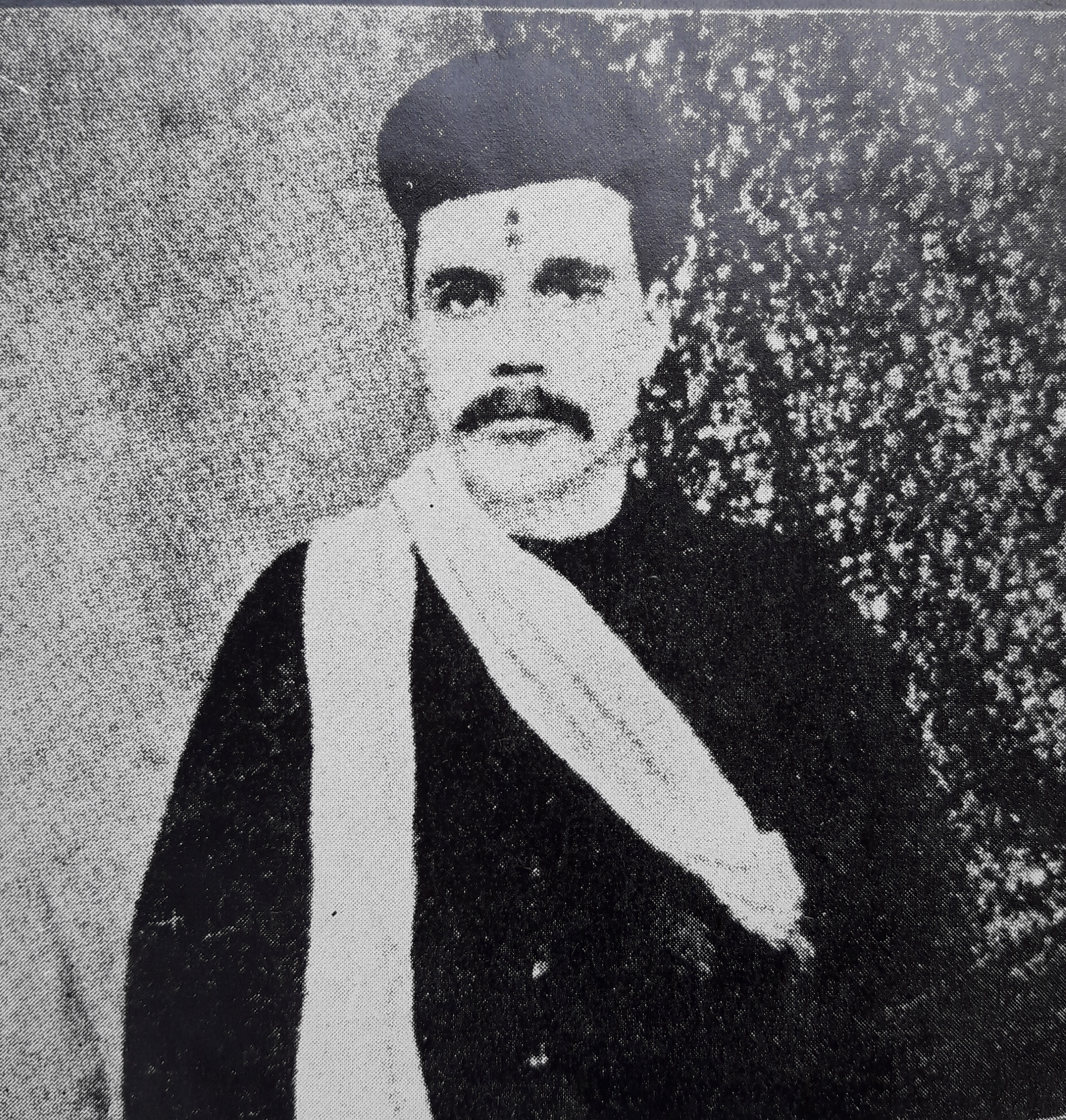 Gujarati writer Manilal Nabhubhai Dwivedi